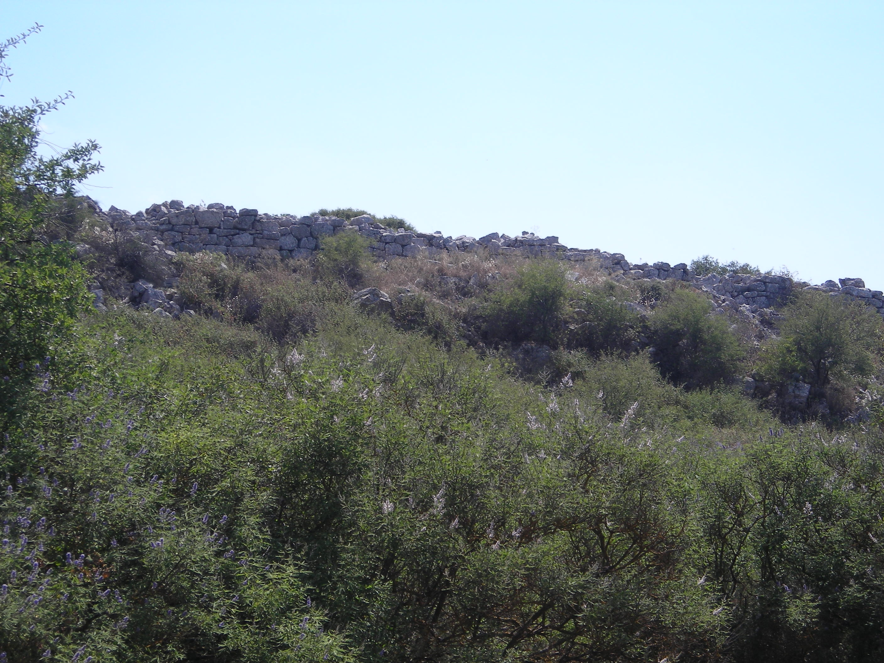 View of the North wall as viewed from below the citadel